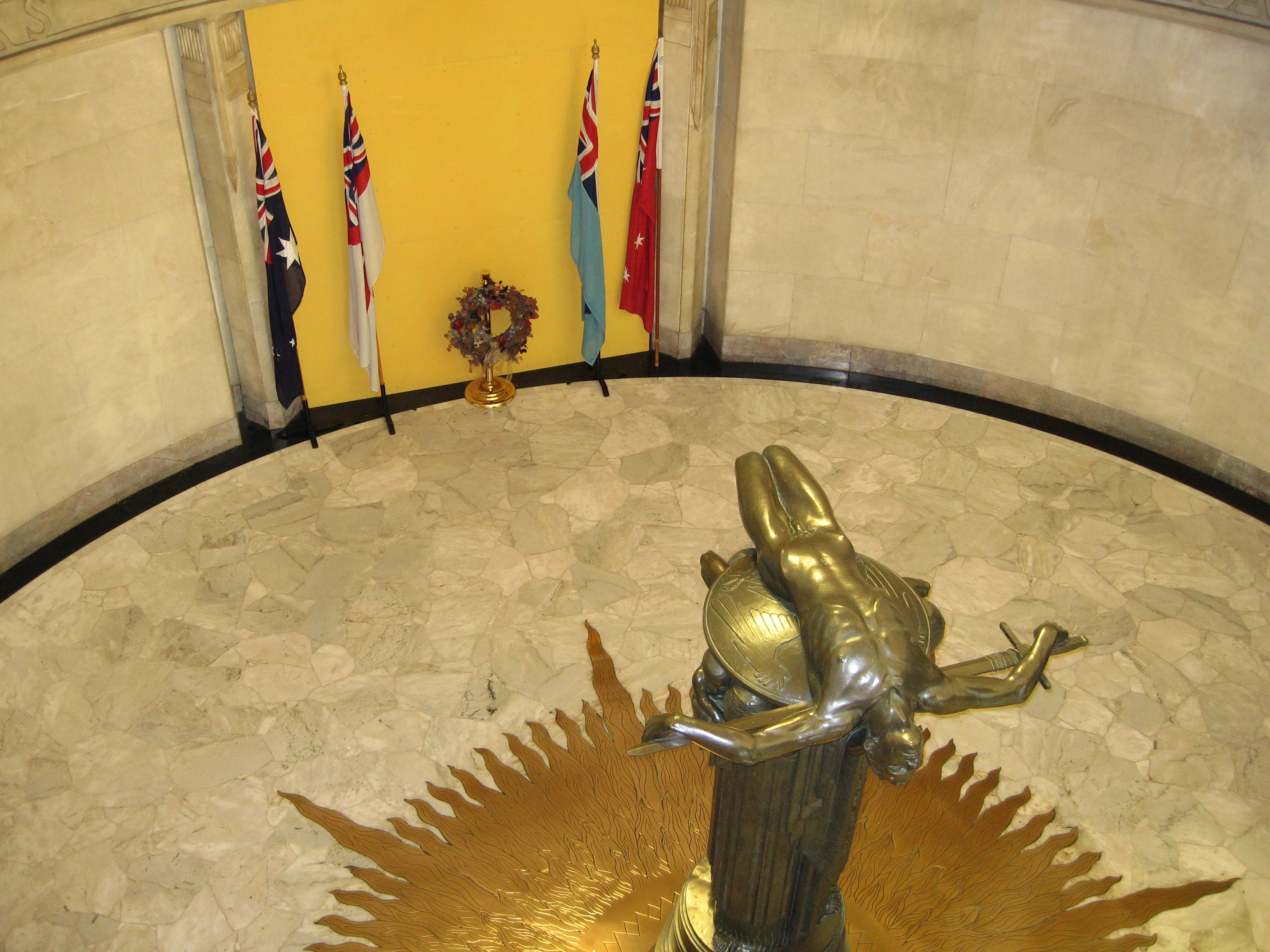 Rayner Hoff's sculpture Sacrifice inside the ANZAC War Memorial, Hyde Park, Sydney, Australia.